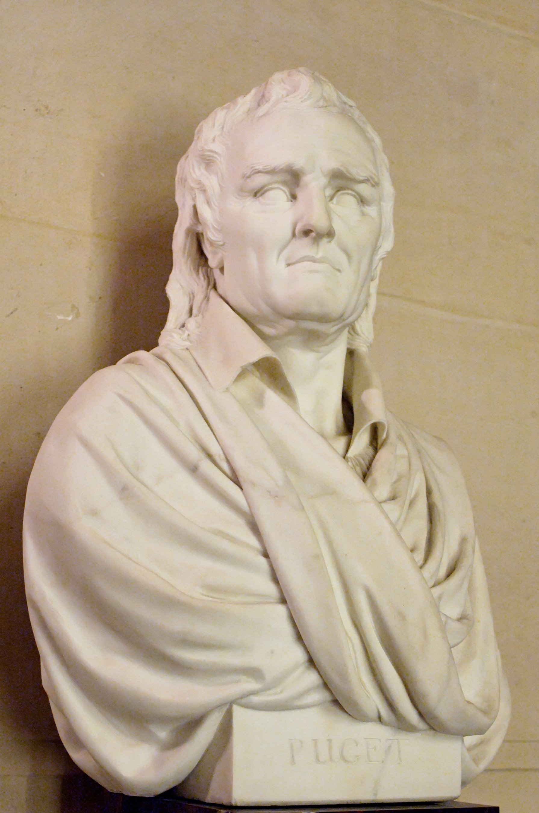 Bust of Pierre Puget (1620–1694), French sculptor